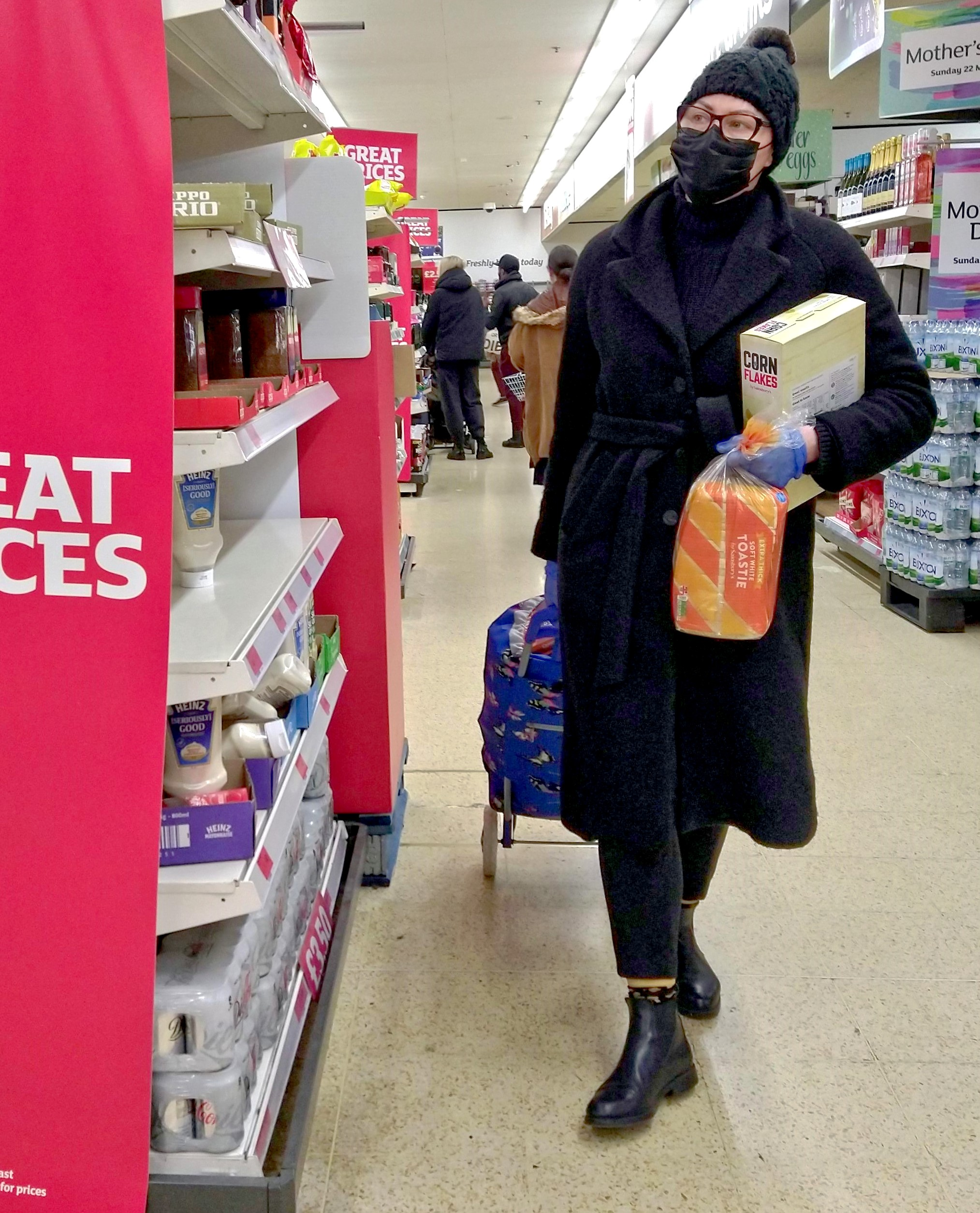 Shopping in rubber gloves and a face mask Sainsbury's north Finchley London 15 March 2020 coronavirus COVID 19 scare